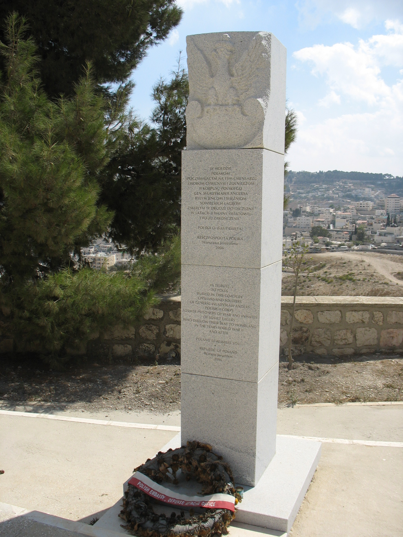 Took the photo myself